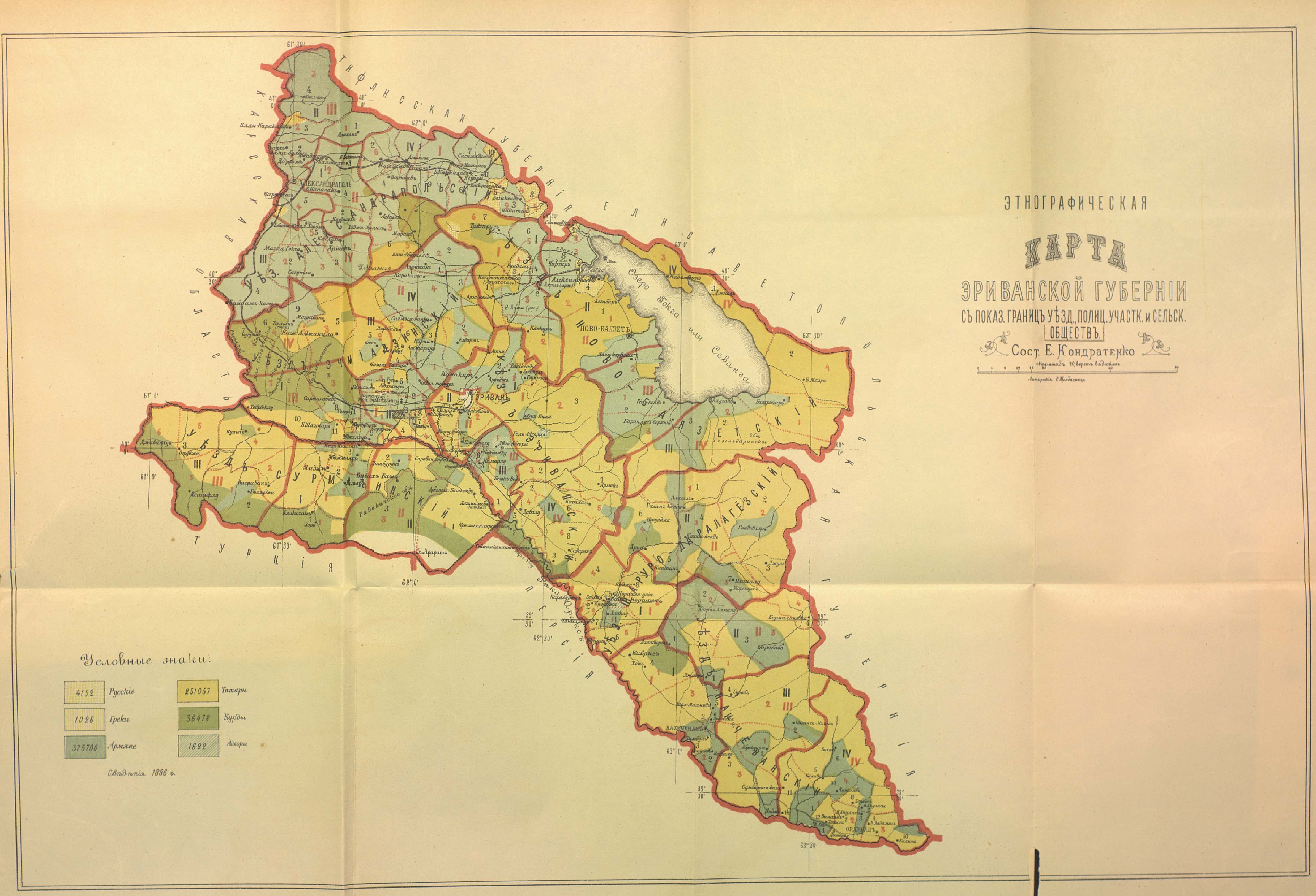 Ethnographic map of the Erivan Governorate